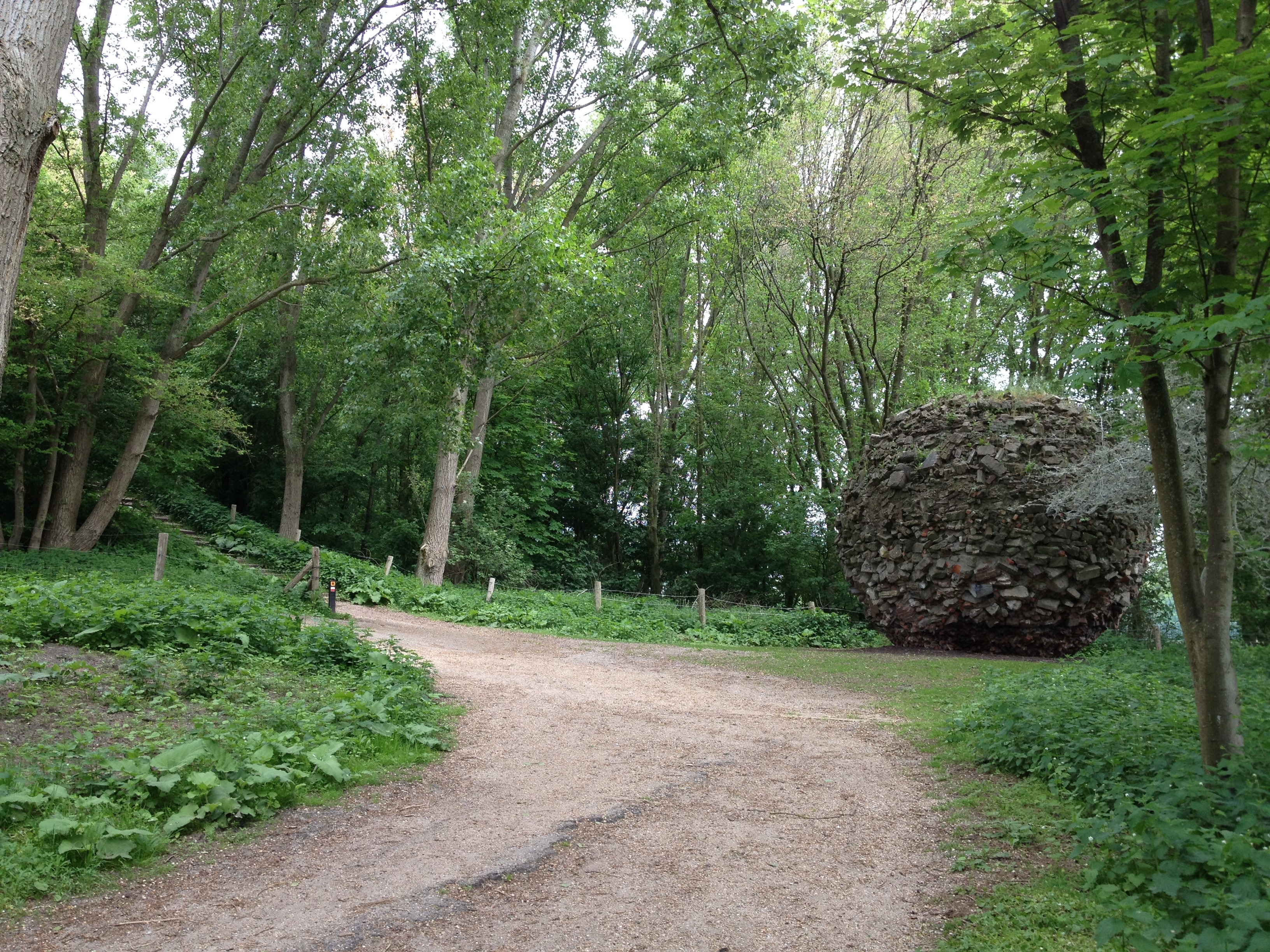 Sculpture, spherical object made from rubble from buildings demolished in WW2.